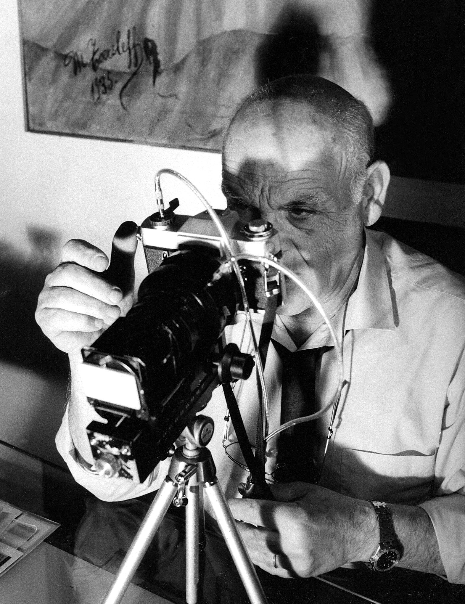 Piero Ravagli fotoreporter